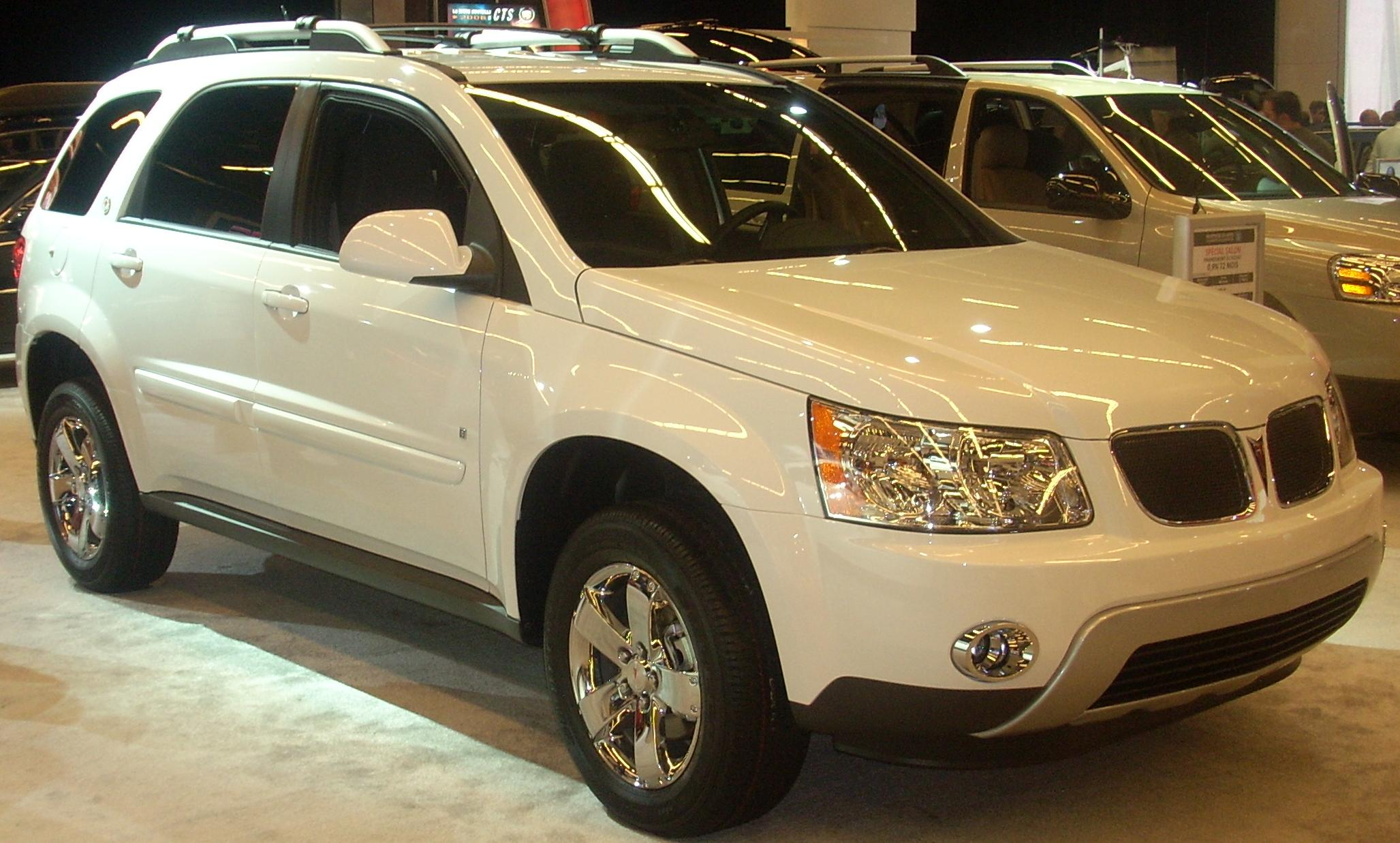 2008 Pontiac Torrent photographed at the Montreal Auto Show.